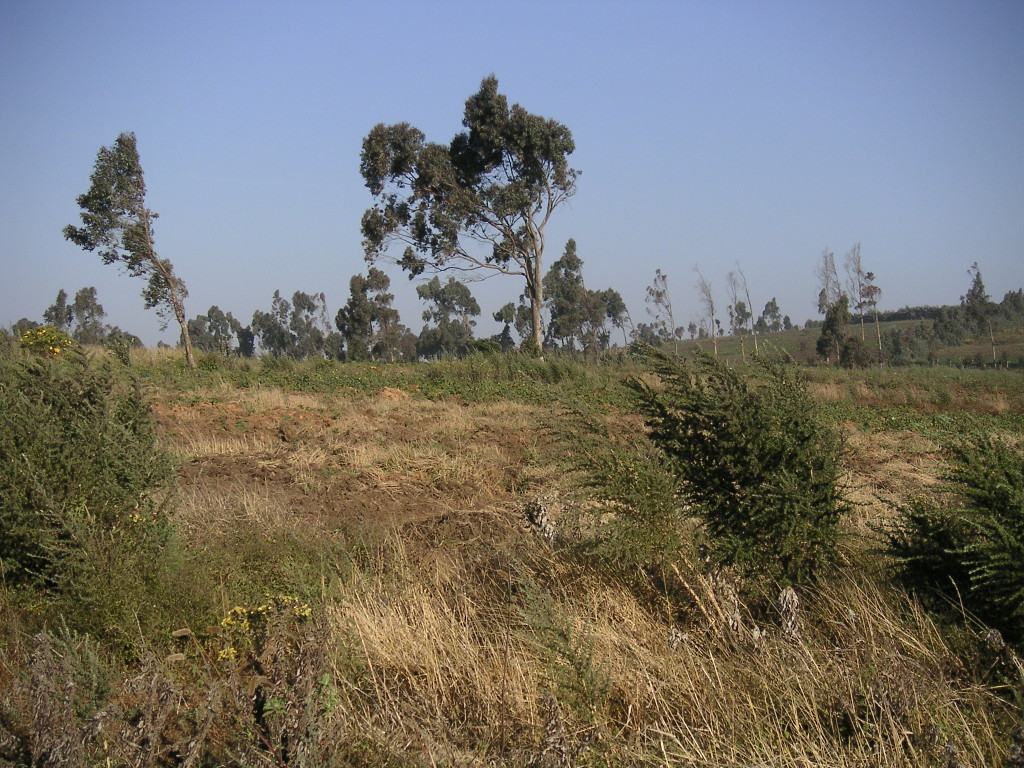 This picture was taken on a windless day on January 11, 2004. It shows that the vegetation on the Maleta plateau is permanently tilted to one direction.